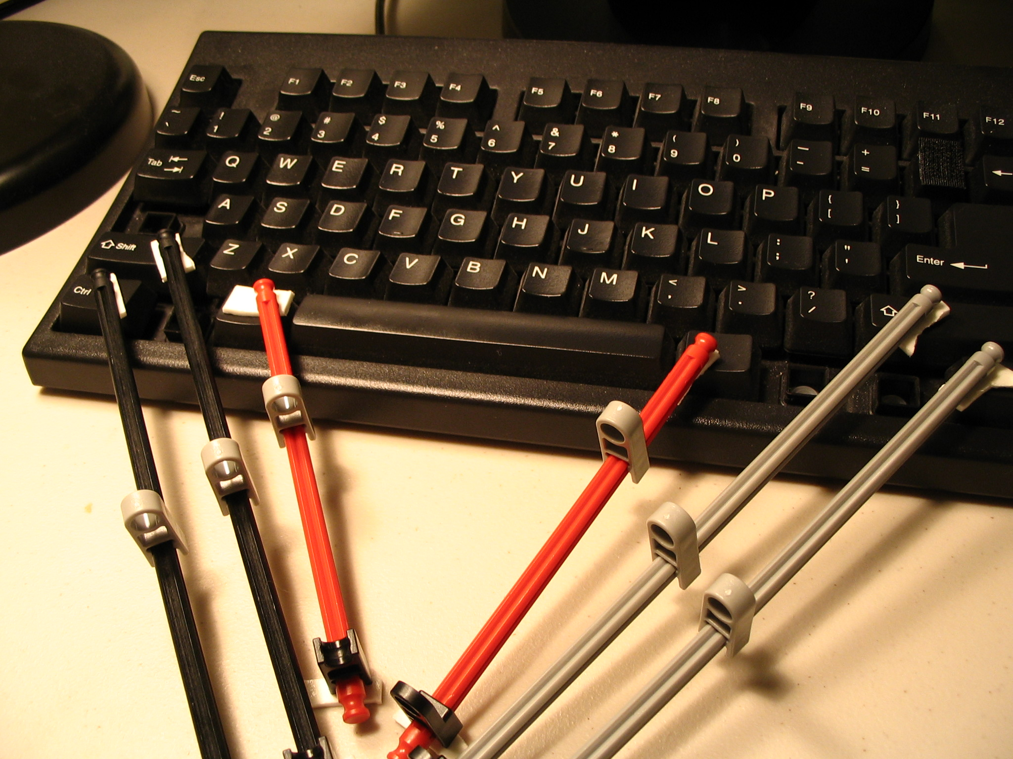 For programmers like me with wrist pain, I have hacked together a simple keyboard modification that lets you press the Ctrl, Alt, and Shift keys with your thumbs. Just like those expensive $240 Kinesis keyboards, but made using a $30 K'nex building toy. (K'nex is like Lego but uses rods instead of bricks).